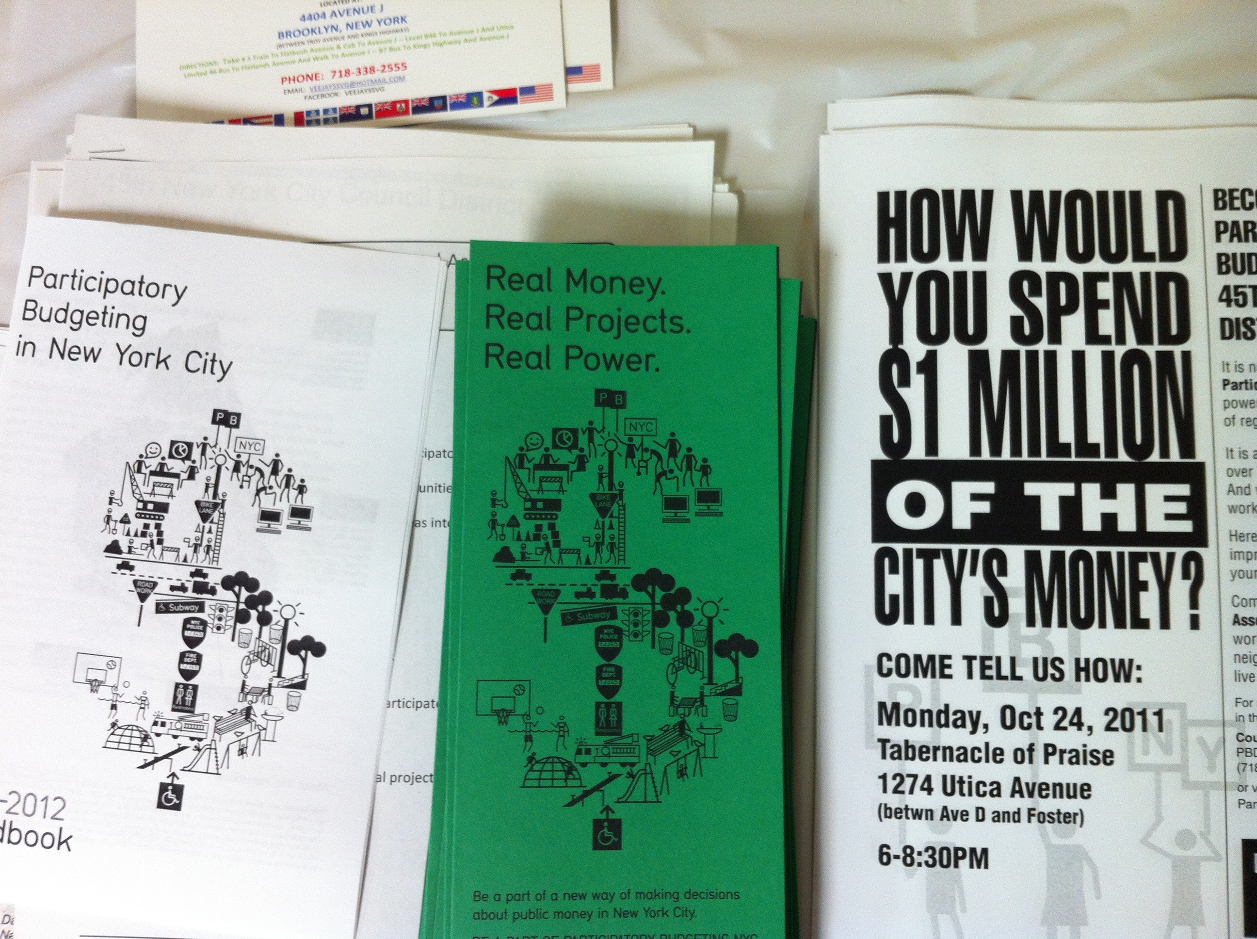 Community Involvement Pamphlets